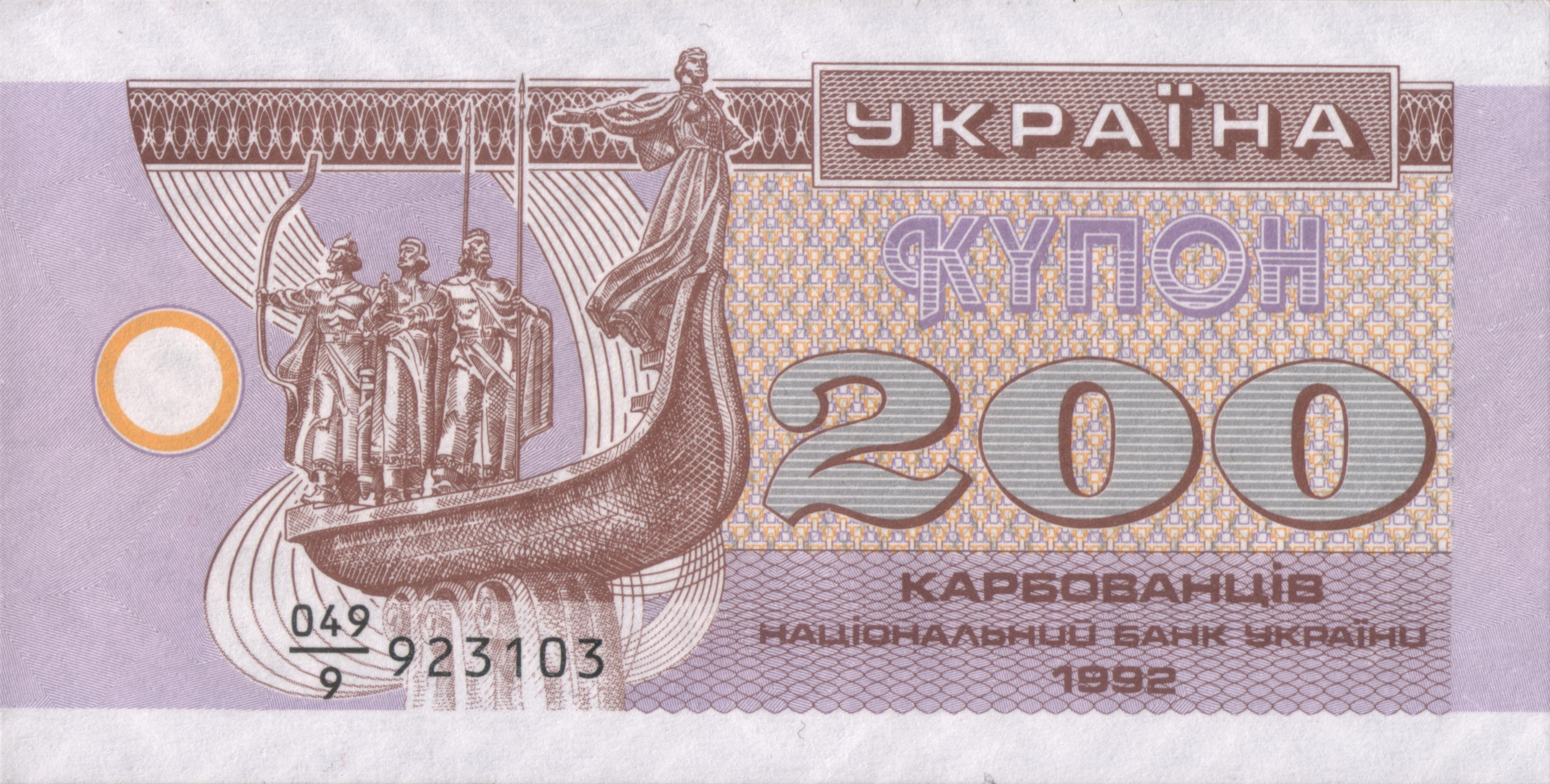 200 karbovanets (1992)